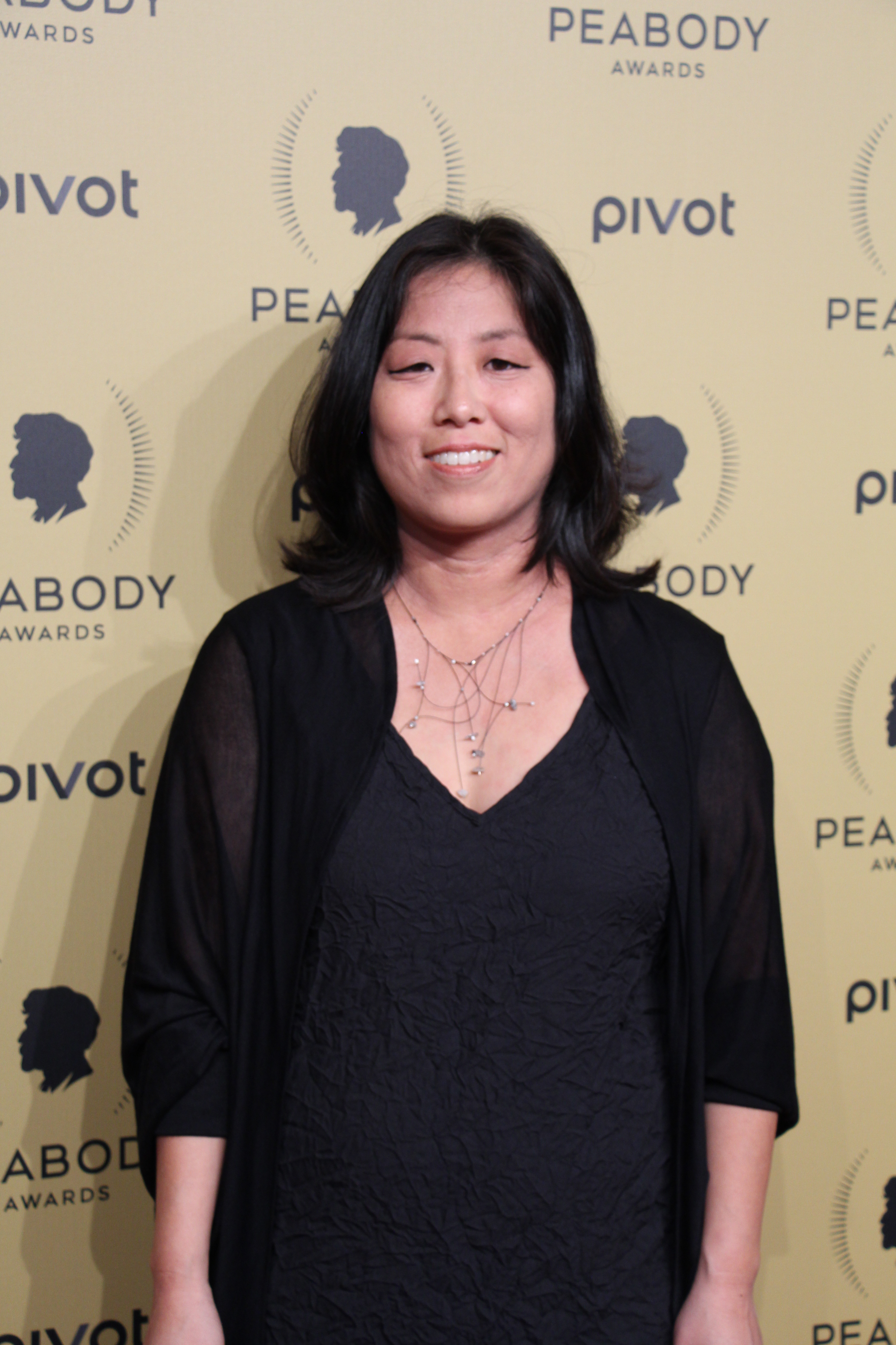 Director and Producer Grace Lee arrives on the red carpet before accepting the Peabody for POV: American Revolutionary: The Evolution of Grace Lee Boggs. Cipriani Wall Street